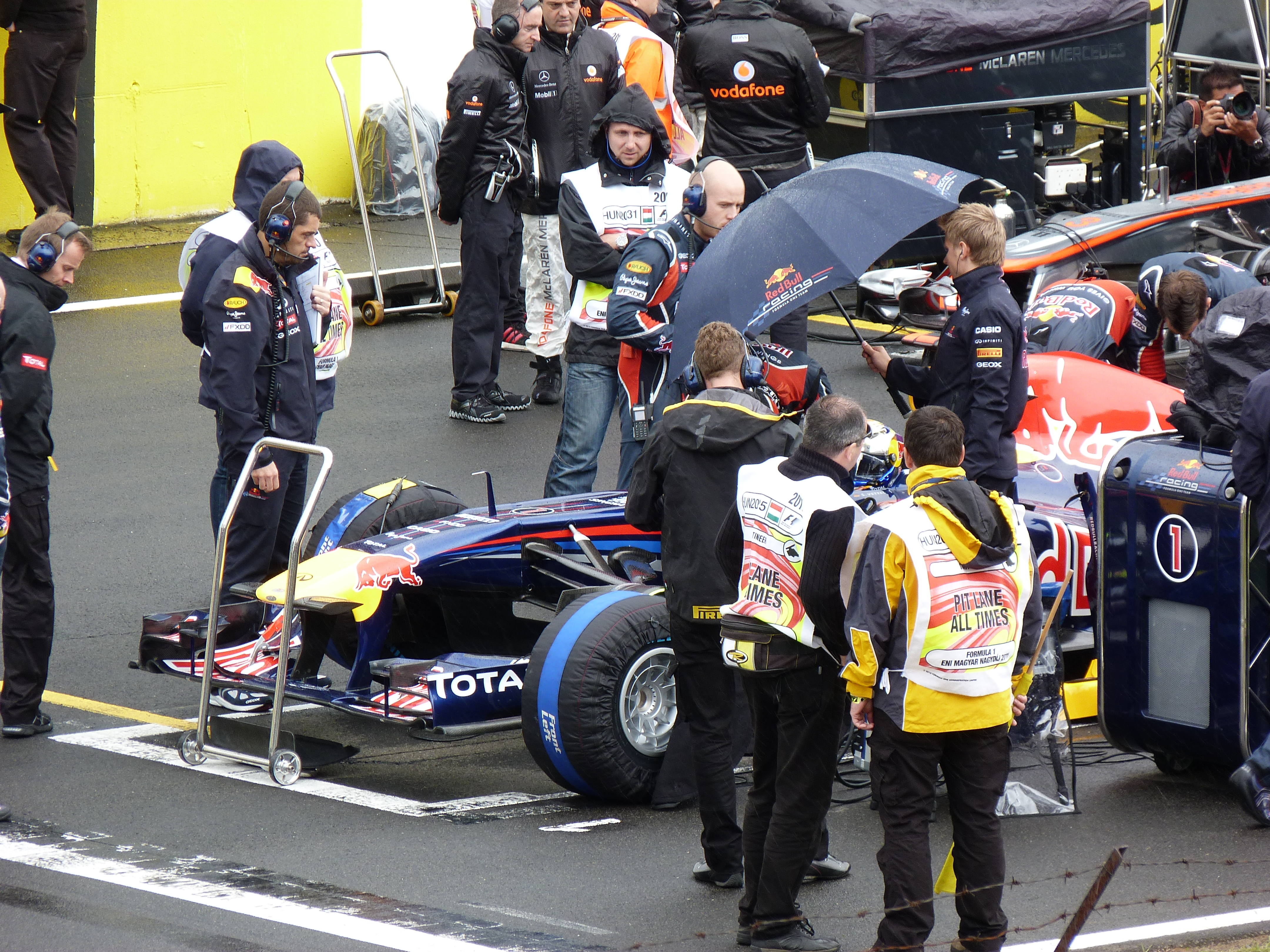 Live on the 31 st of July, 2011. Hungaroring, Mogyoród, Hungary. The 26 th Formula 1 Hungarian Grand Priex started at 2 pm. Before the start. Budapest has always been special place for Jenson Button: it was here that he took his first Grand Prix win five years ago - and it is here that he has taken victory in his 200th Grand Prix. Red Bull's Sebastian Vettel stretched his commanding lead in the championship with a second-place finish in wet conditions Sunday.